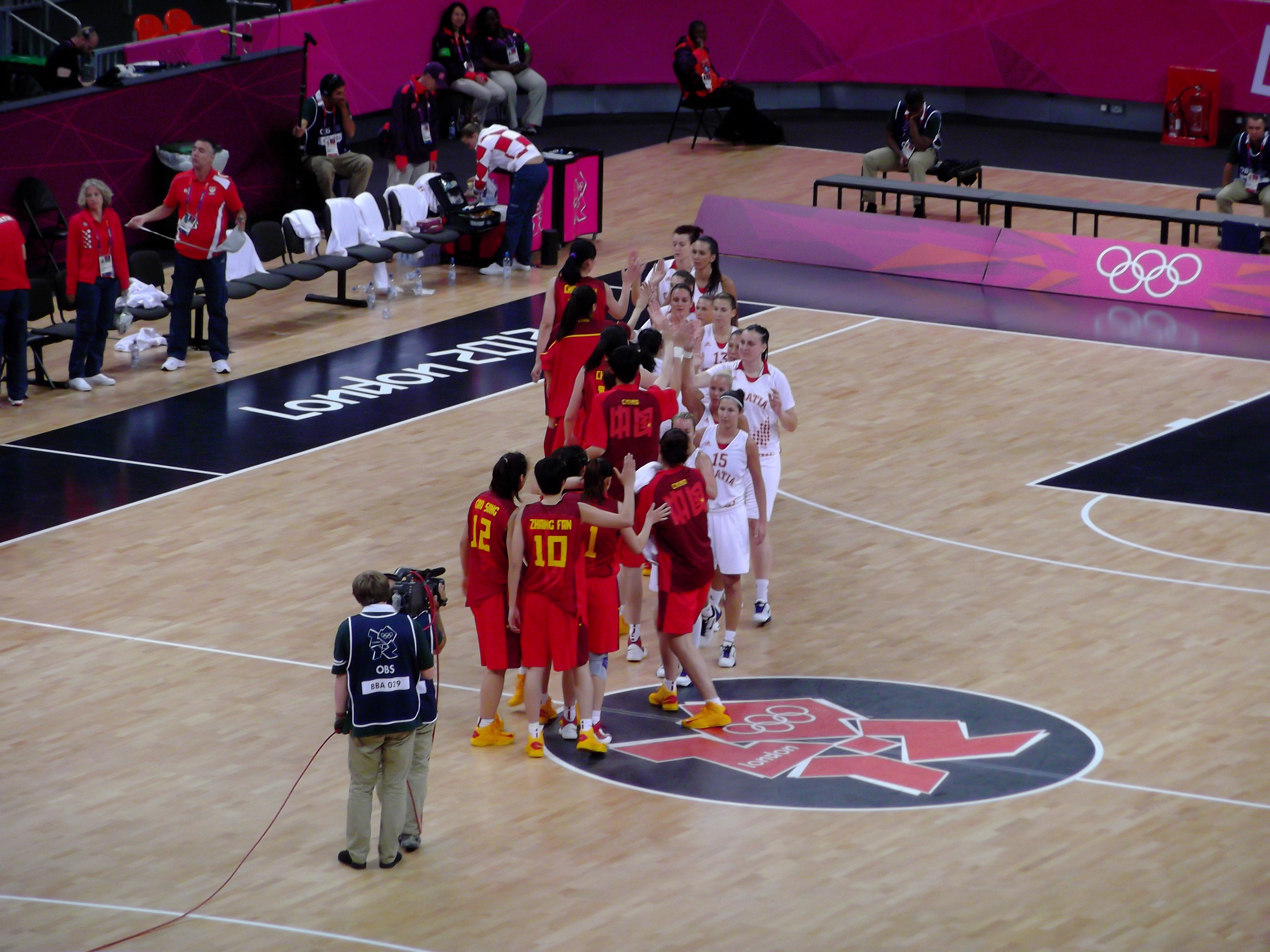 London 2012 Olympics 058 Basketball Arena (42)